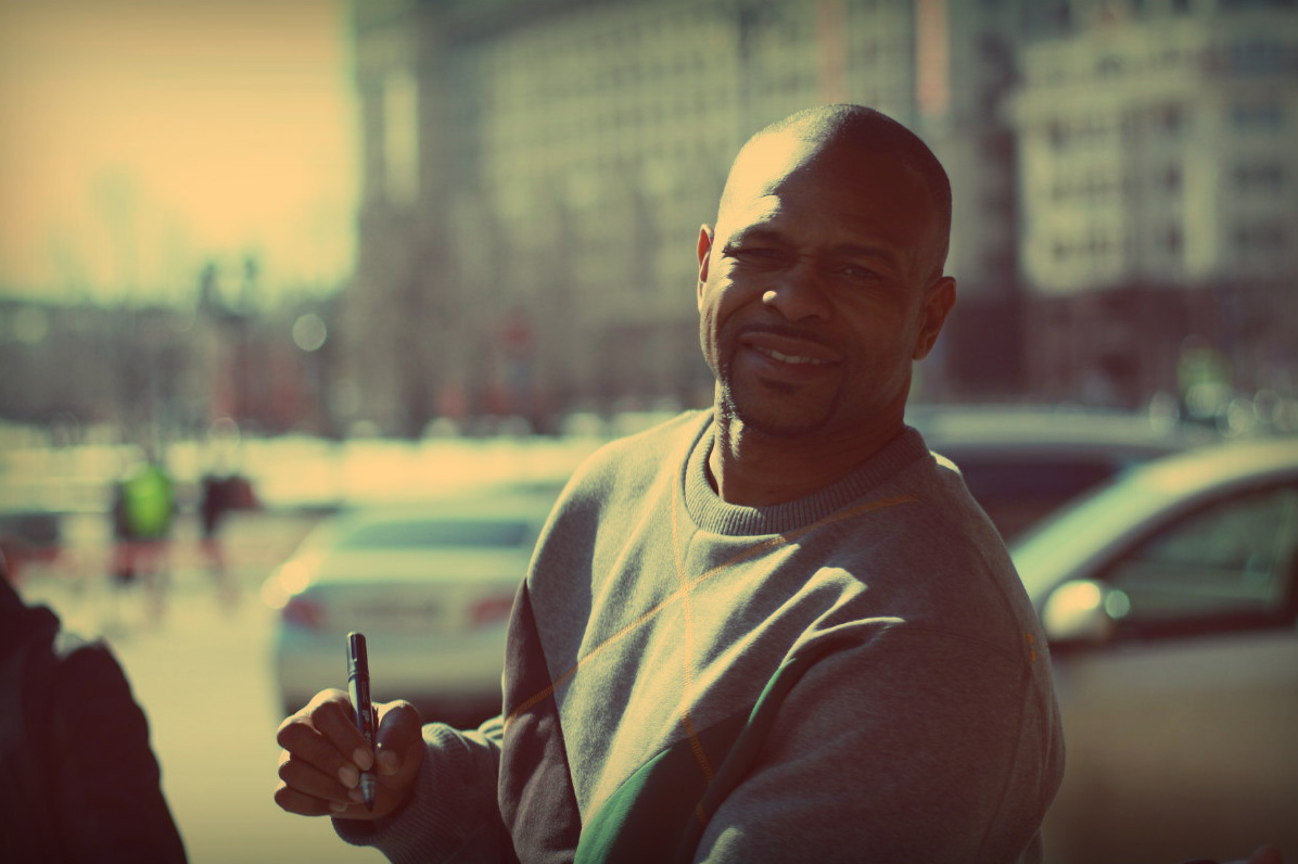 Jones gives an autograph (Moscow, Russia)